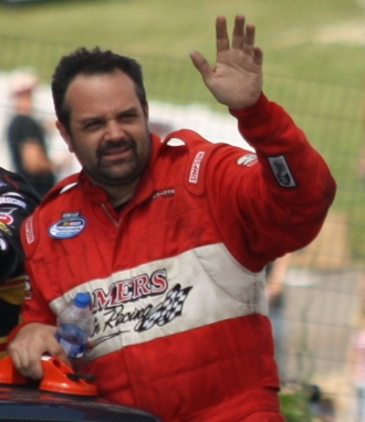 NASCAR driver Tony Ave during driver introductions at the 2010 Bucyros 200 the first Nationwide Series race at Road America.